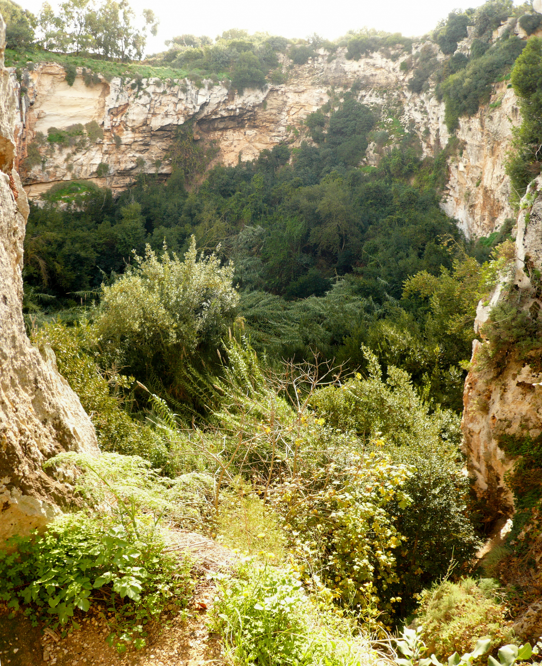 Maqluba, a large hole in the ground near the village of Qrendi, Malta